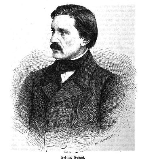 Portrait of Godefried Guffens (1823-1901)